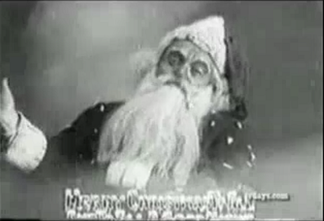 Still from the silent short film The Night Before Christmas, 1905